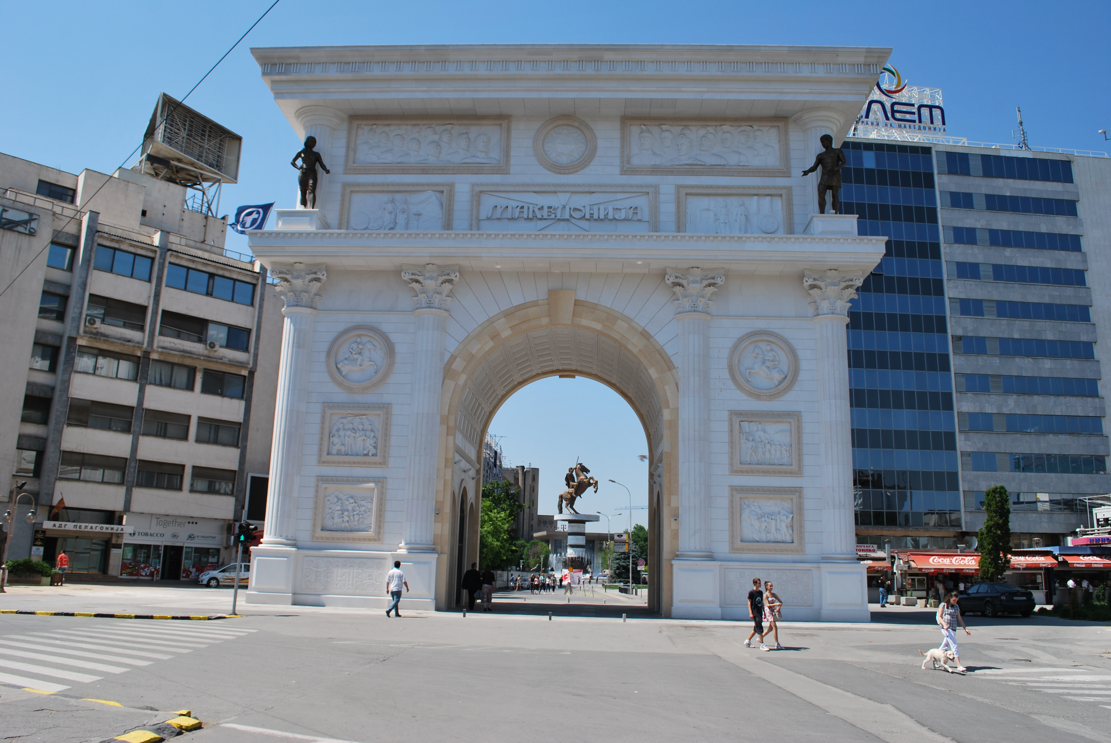 Triumphal arch "Porta Macedonia" in Skopje, Macedonia